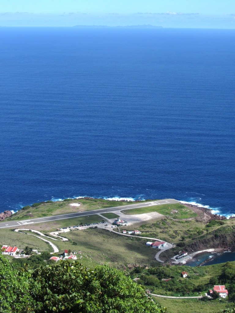 Saba Airport, Most Dangerous Airport in the World, Vertical